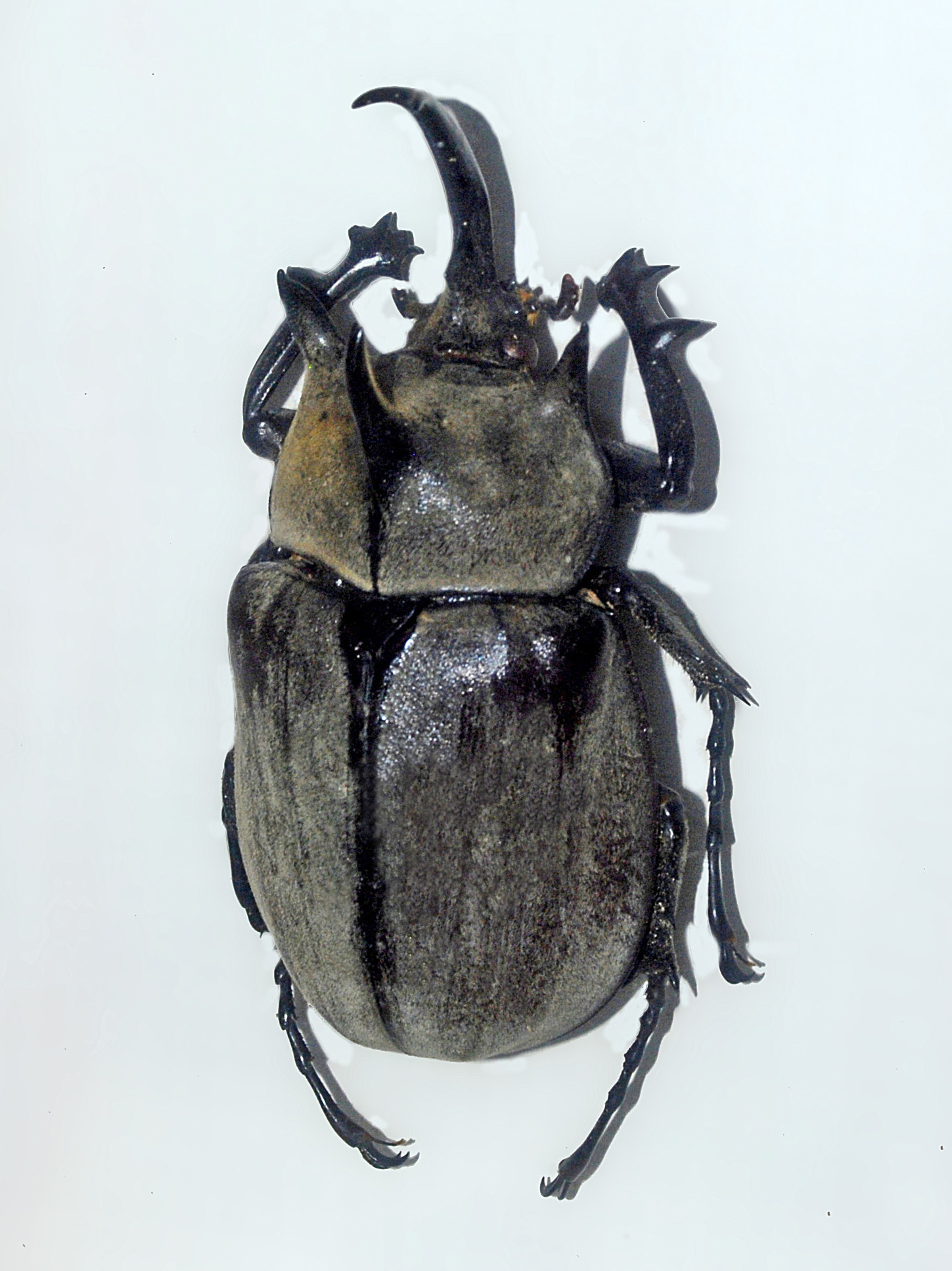 Megasoma anubis (male) from Brazil, on display at the Museo Civico di Storia Naturale of Lecco